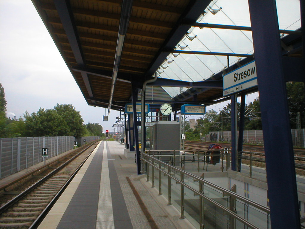 Platform of the Berlin-S-station Stresow